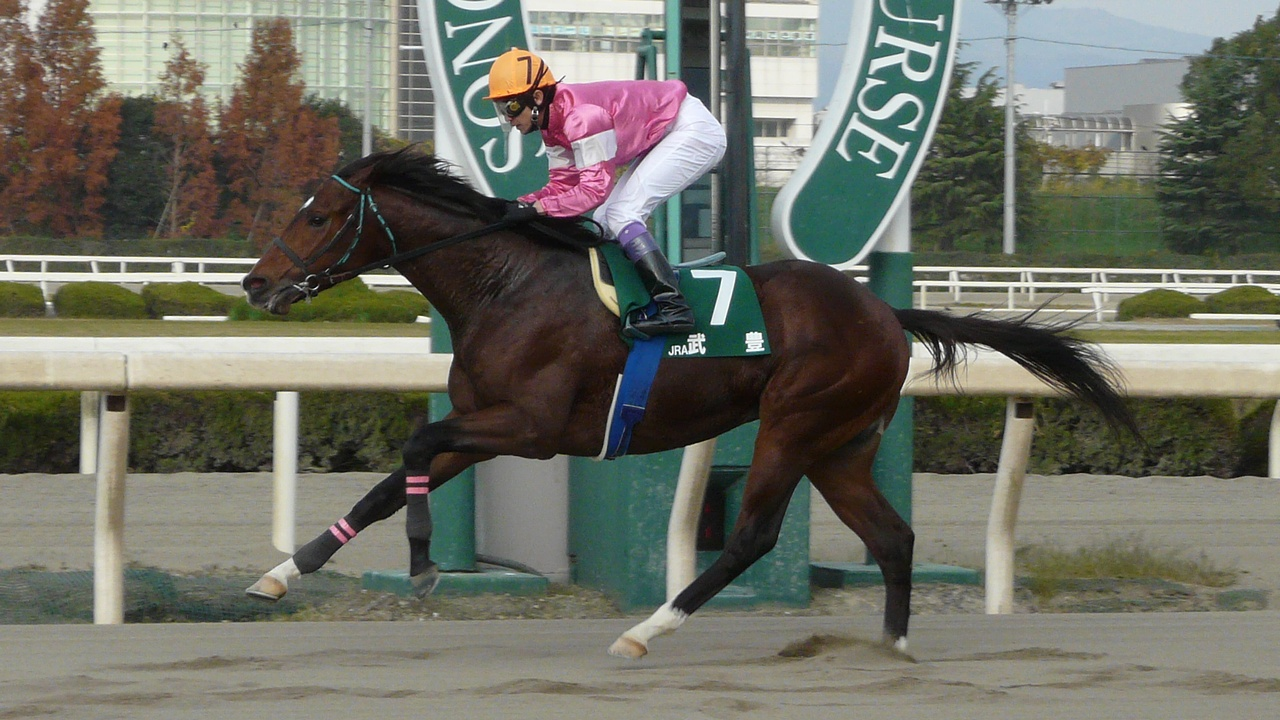 Yutaka-Take20111215